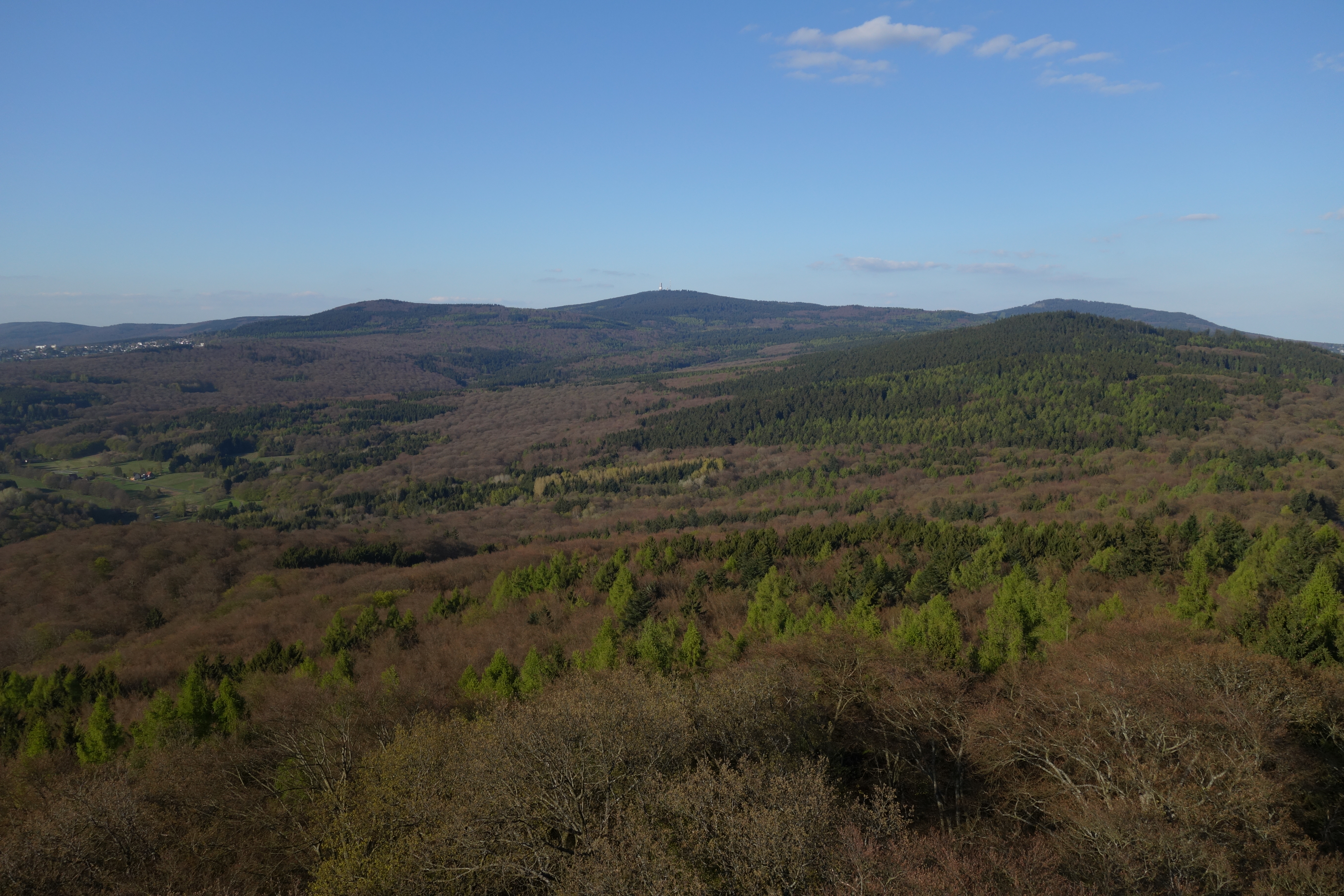 Eichkopf (Kelkheim), rechts im Vordergrund von Südwesten gesehen, vom 2017 abgebrannten Aussichtsturm auf dem Atzelberg. Dahinter der Altkönig, in der Hintergrundmitte Großer Feldberg, links davon der Glaskopf über dem Ort Glashütten.